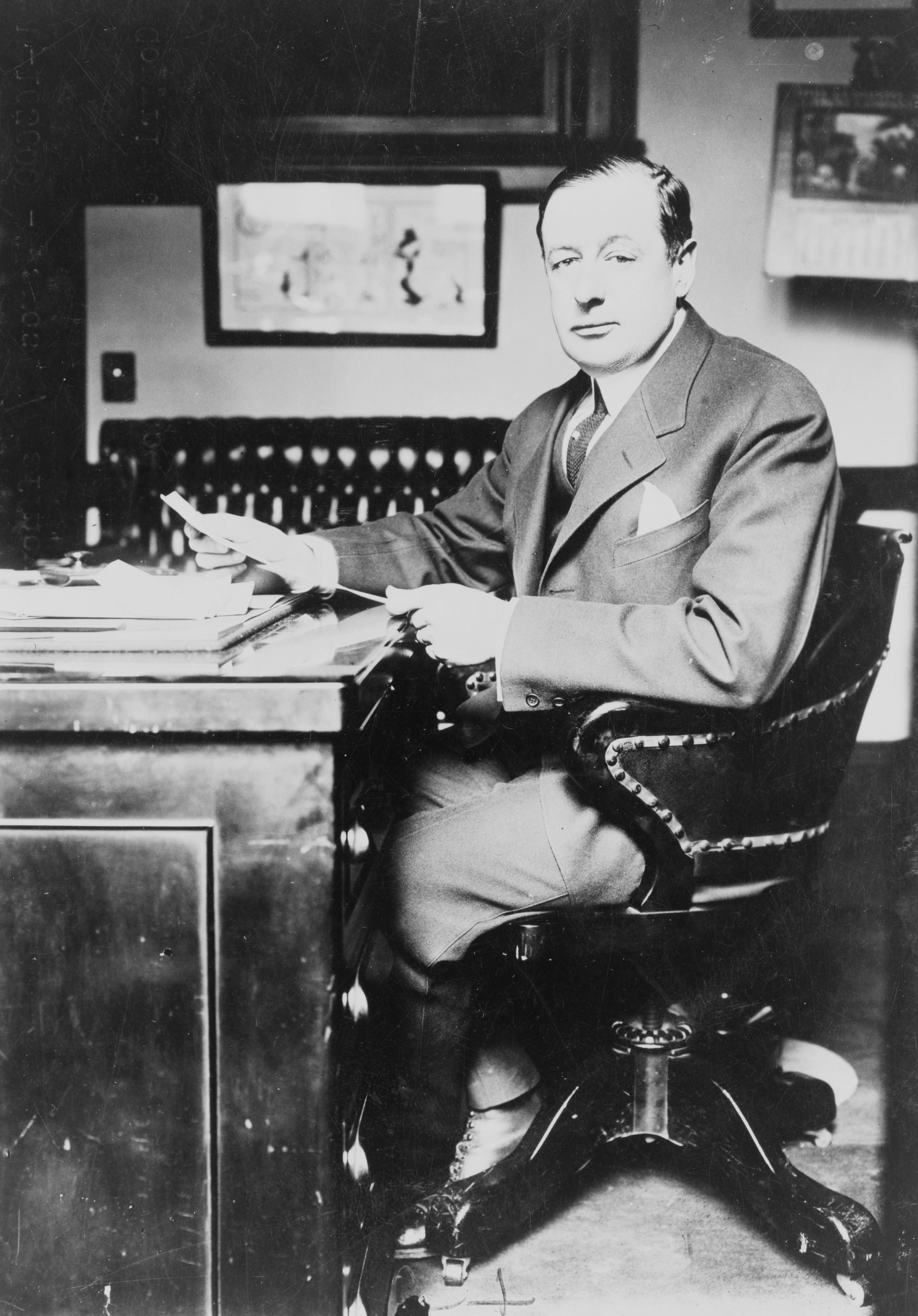 Title: James E. Gaffney, full-length portrait, facing front, seated at desk Abstract/medium: 1 photographic print.